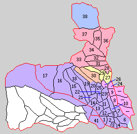 群馬県群馬郡の町村。